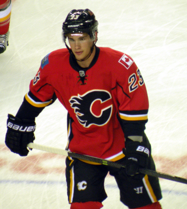 Calgary Flames forward Sean Monahan prior to a pre-season game against the Edmonton Oilers.